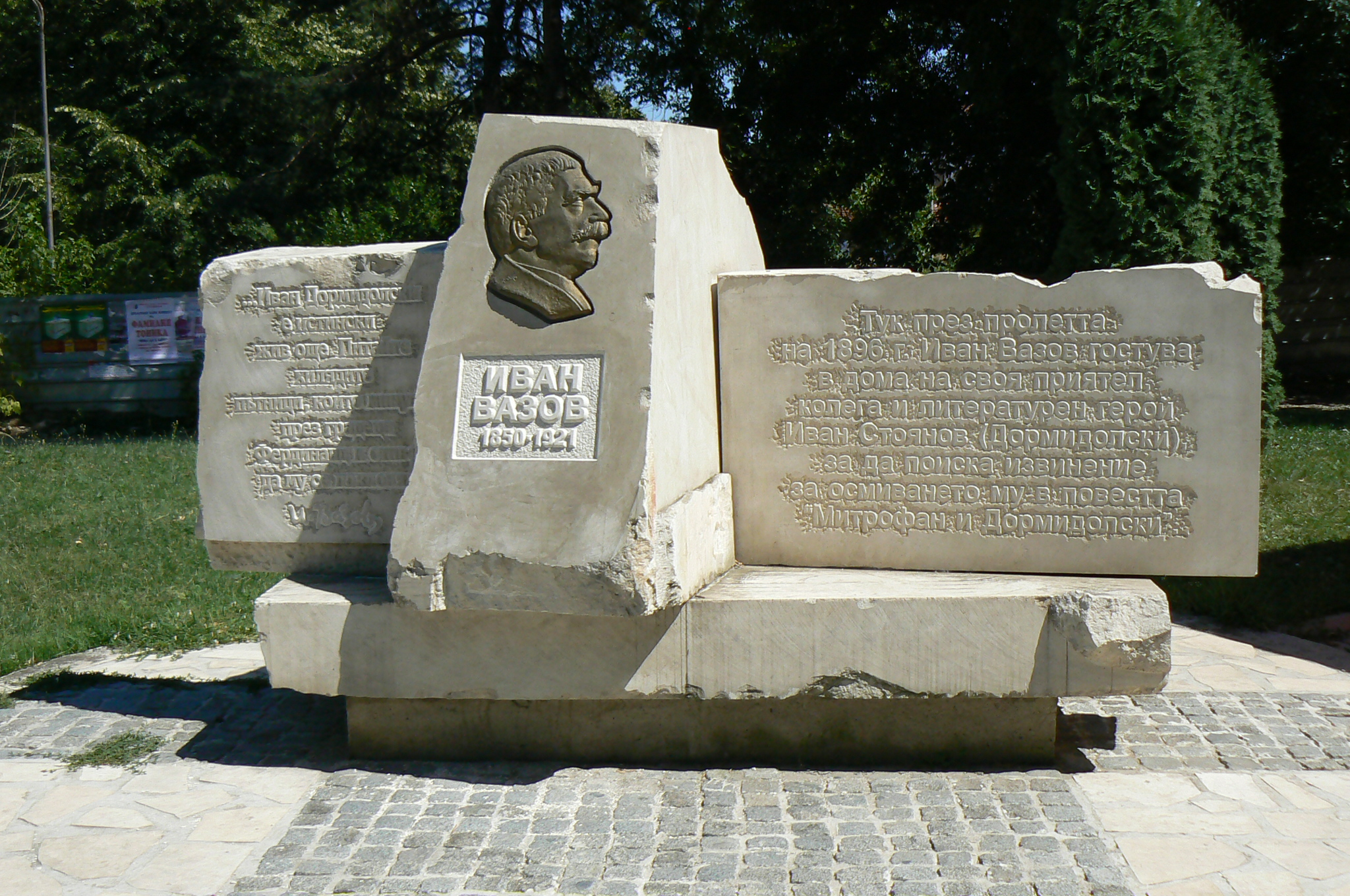 Monument of Ivan Vazov in Montana, Bulgaria